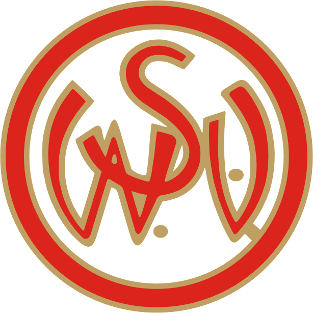 Logo of Waldenburger SV 1909, German football team.